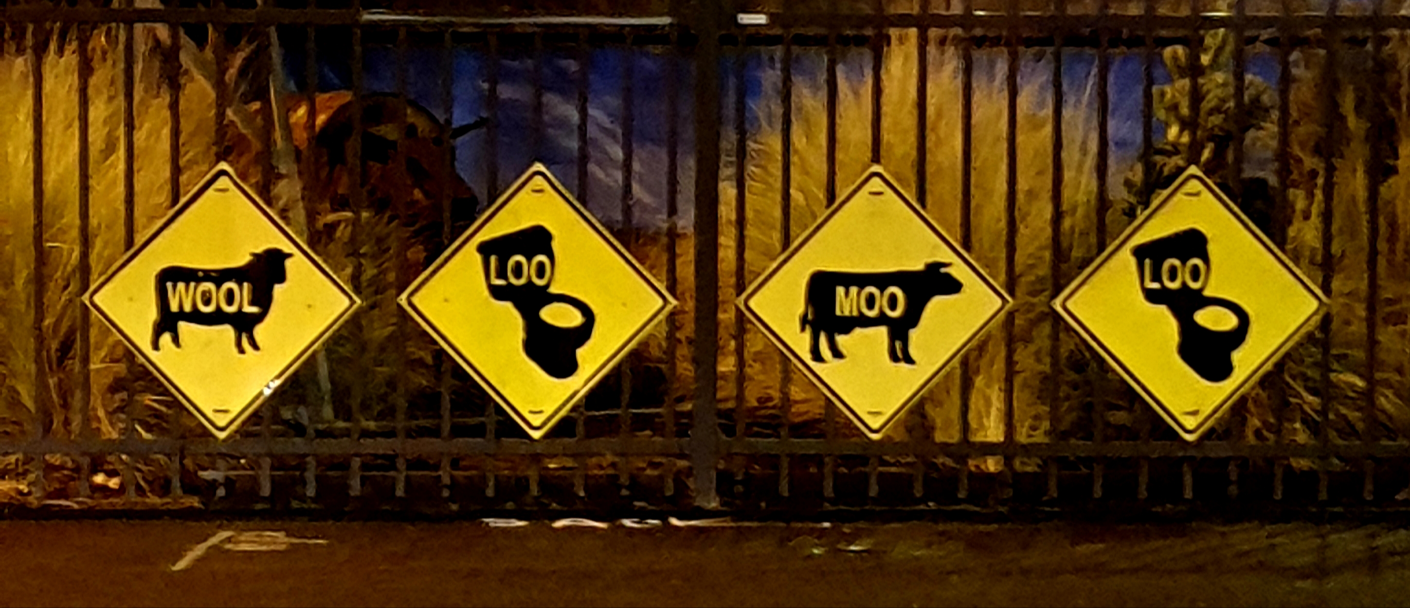 Visual representation of 'Woolloomooloo', on Cathedral Street in Woolloomooloo, New South Wales.